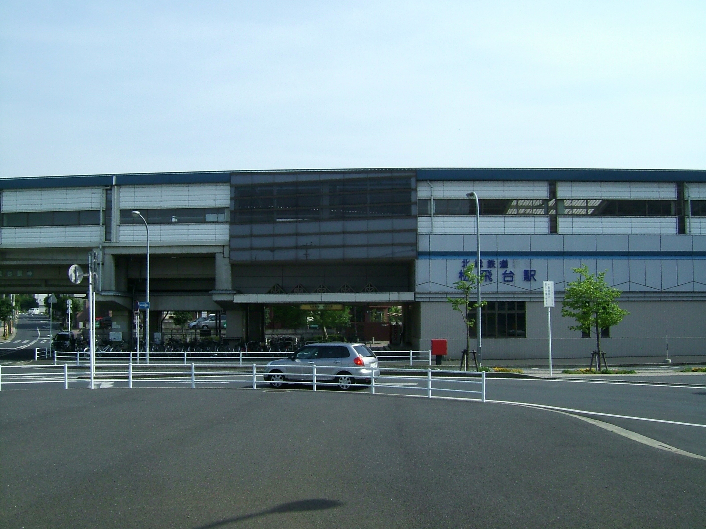 Matsuhidai Station (Hokuso Line)